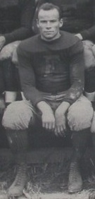 Lud Wray as a member of the Philadelphia City Champion Frankford Athletic Association Yellow Jackets in 1922.